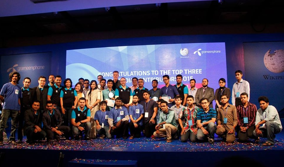 Group picture of "10th year anniversary celebration" of Bengali Wikipedia on 26-February-2015 at Radisson Blu Water Garden Hotel Dhaka, Bangladesh.